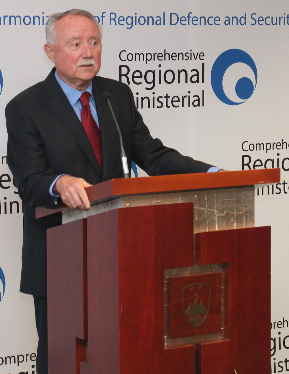 Anton Bebler (1937-), Slovene diplomat, publisher and politician